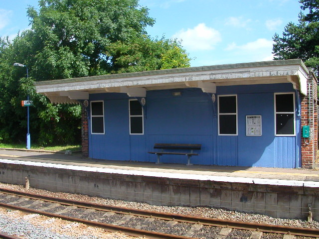 Cantley Station. The station is right next to the Sugar Beet Factory, and the road crossing it goes nowhere but the pub and the river.